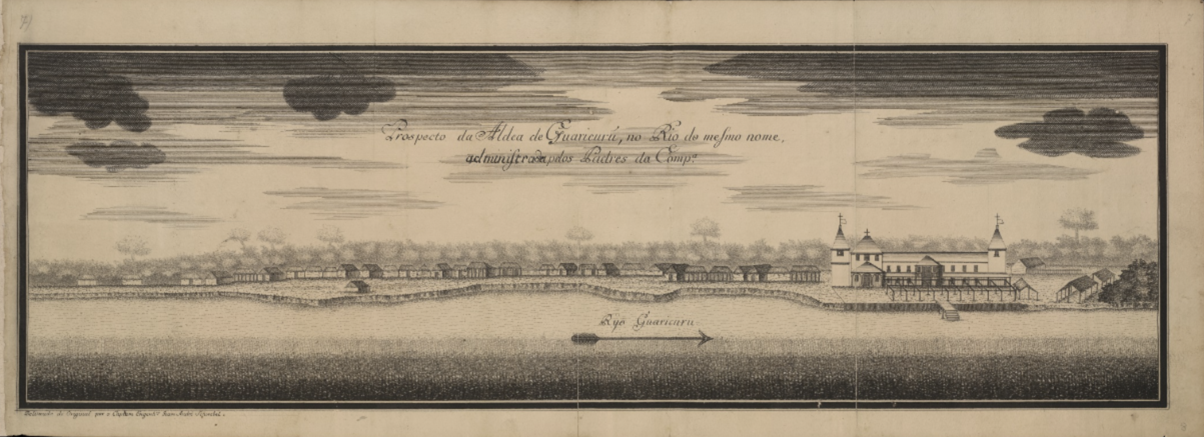 View of the Aldea of Guaricurú. Collection from the prospects of the villages, and more remarkable places that are found on the map that the engineers created on expedition starting from the city of Pará to the village of Mariua in the Rio Negro, 1756. Drawing in Indian ink by João André (Johann Andreas) Schwebel. He was a German military engineer and was hired by the Portuguese Crown to be part of the Commission of border demarcations in the northern region of Brazil according to the Treaty of Madrid (1750). The Portuguese commission stayed for five years conducting surveying and hydrographic services in this region. This view, together with the others in this group, constitute an iconographic collection of the region between Belém and Barcelos during the colonial period. Collection of the Biblioteca Nacional do Brasil.